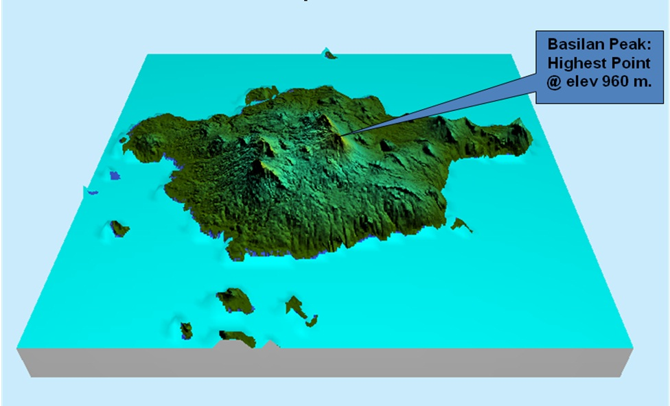 Topographical Map of Basilan Province LGU, Philippines